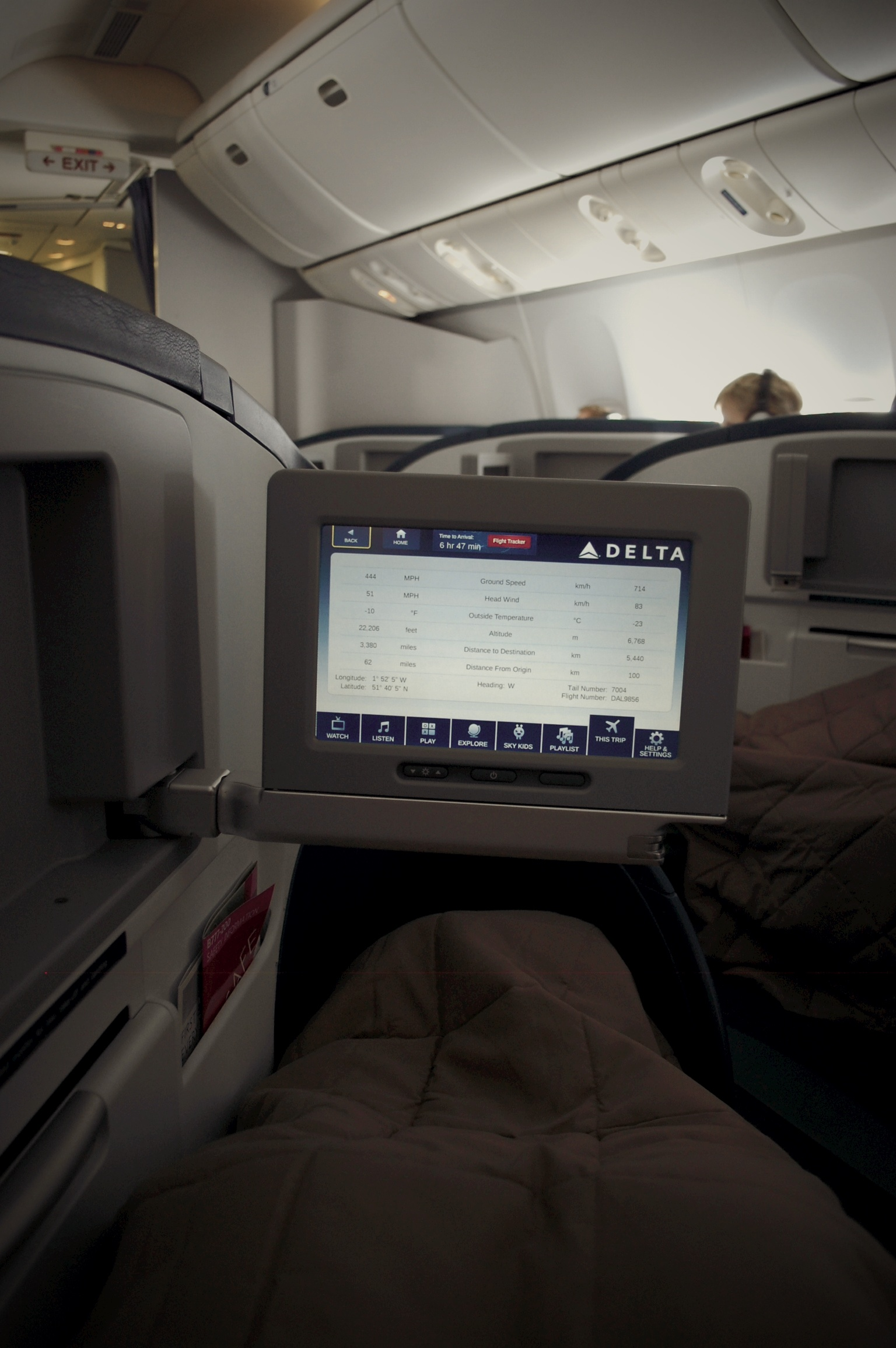 A BusinessElite seat aboard a Delta 777-200ER